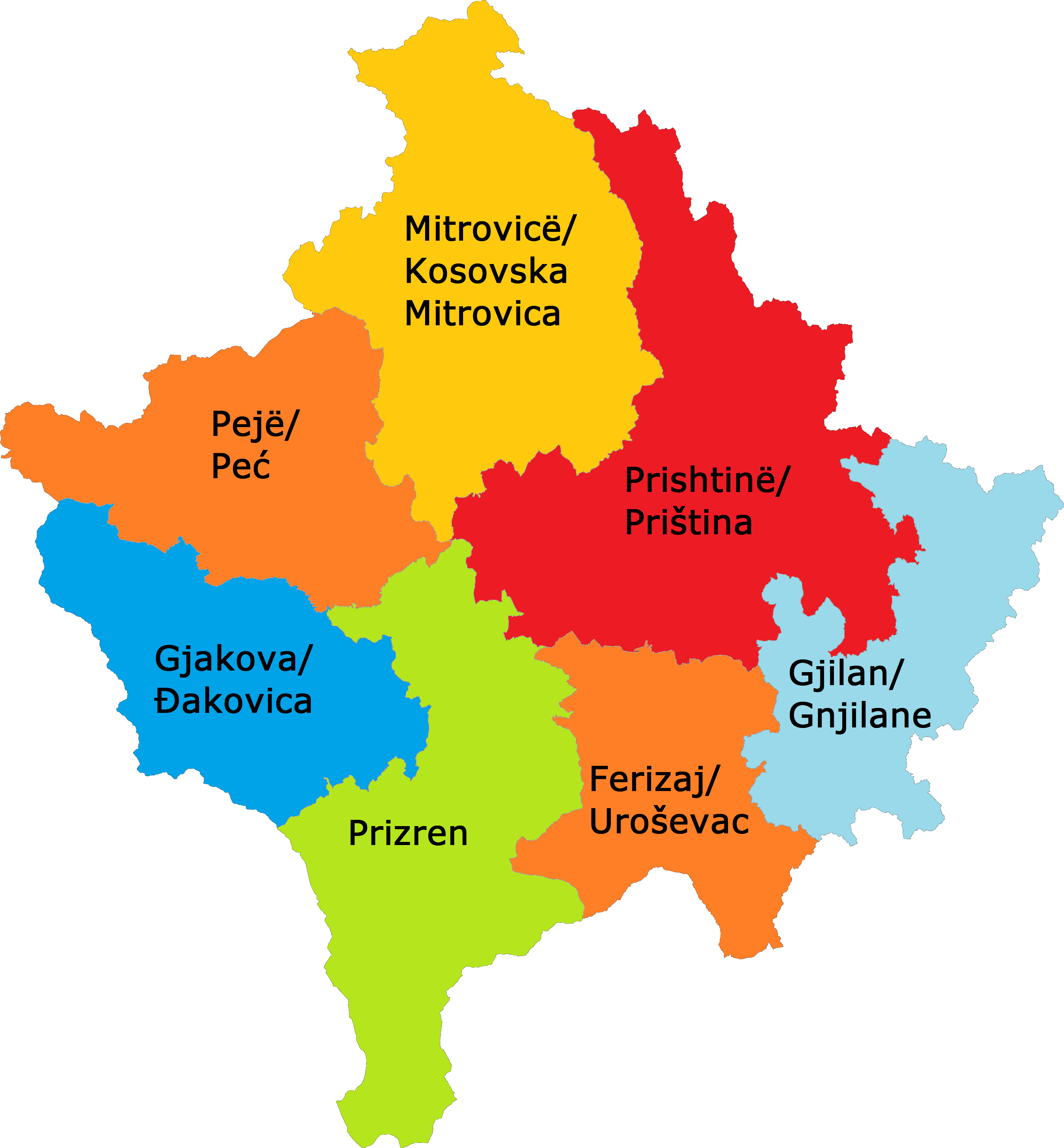 Districts of Kosovo